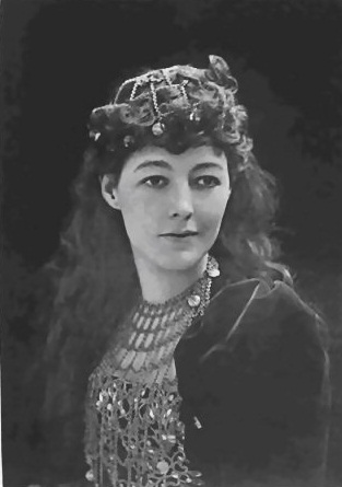 Actress May Yohe circa 1894